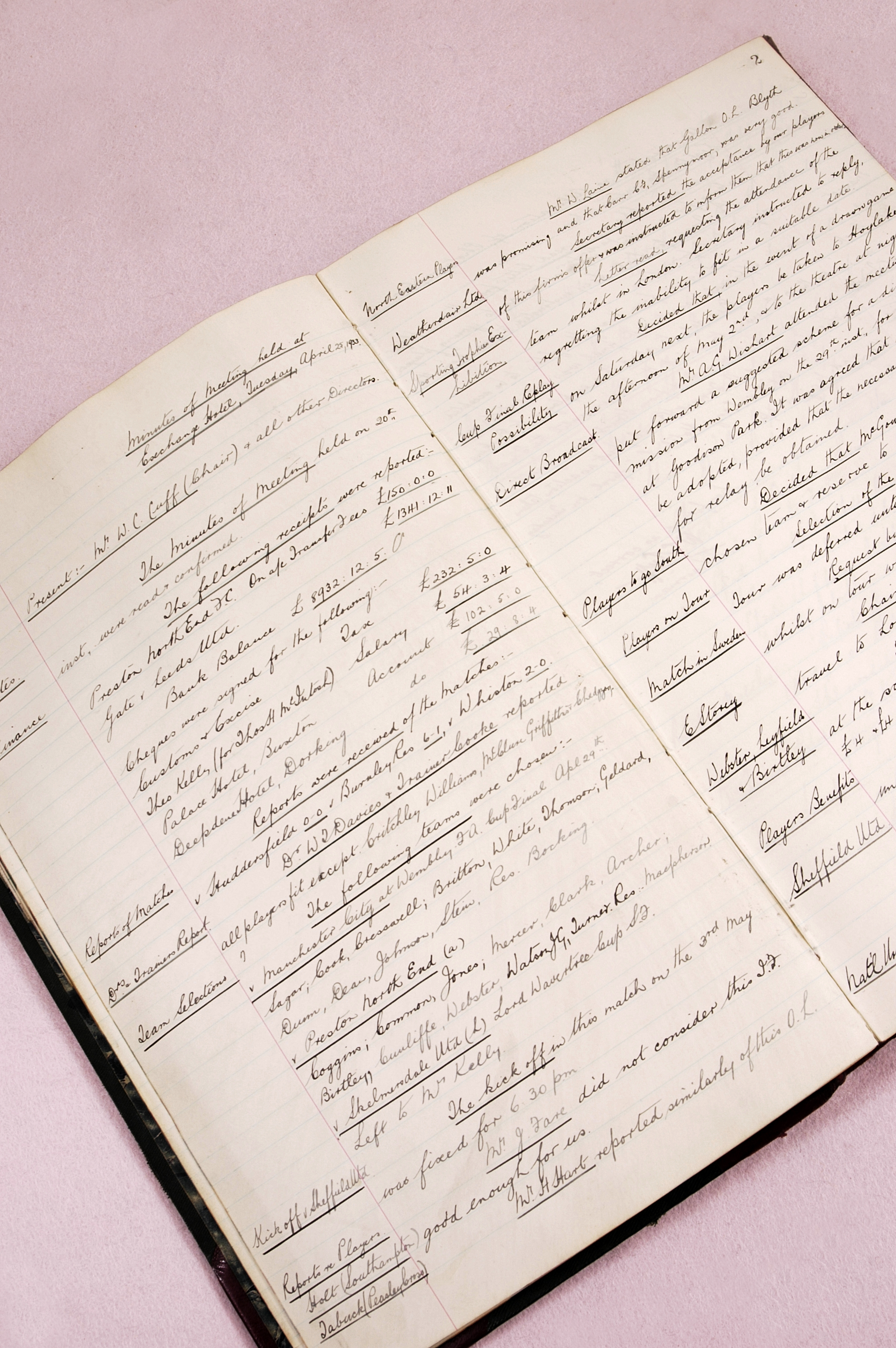 Page from official club ledgers showing the Everton team selected for the 1933 F.A. Cup Final